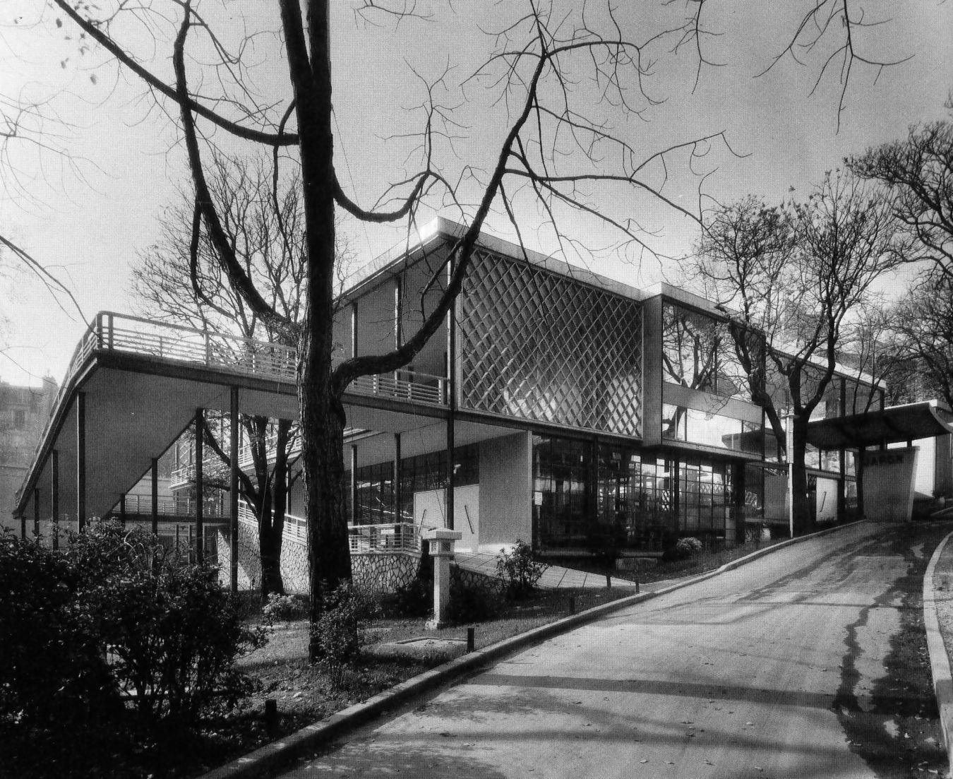 Sakakura Junzō: Japan Pavilion in the Paris Exposition, 1937